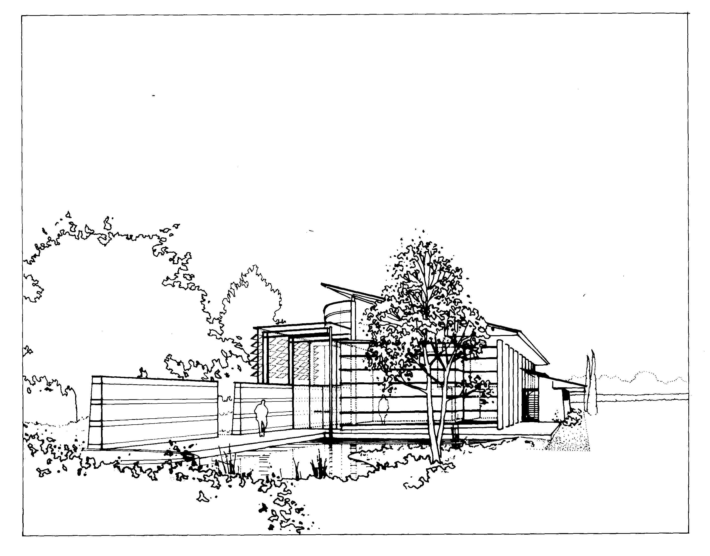 Design Competition Sketch by Aidan Ridyard RIBA